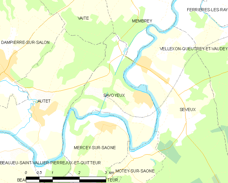 Map of French municipality